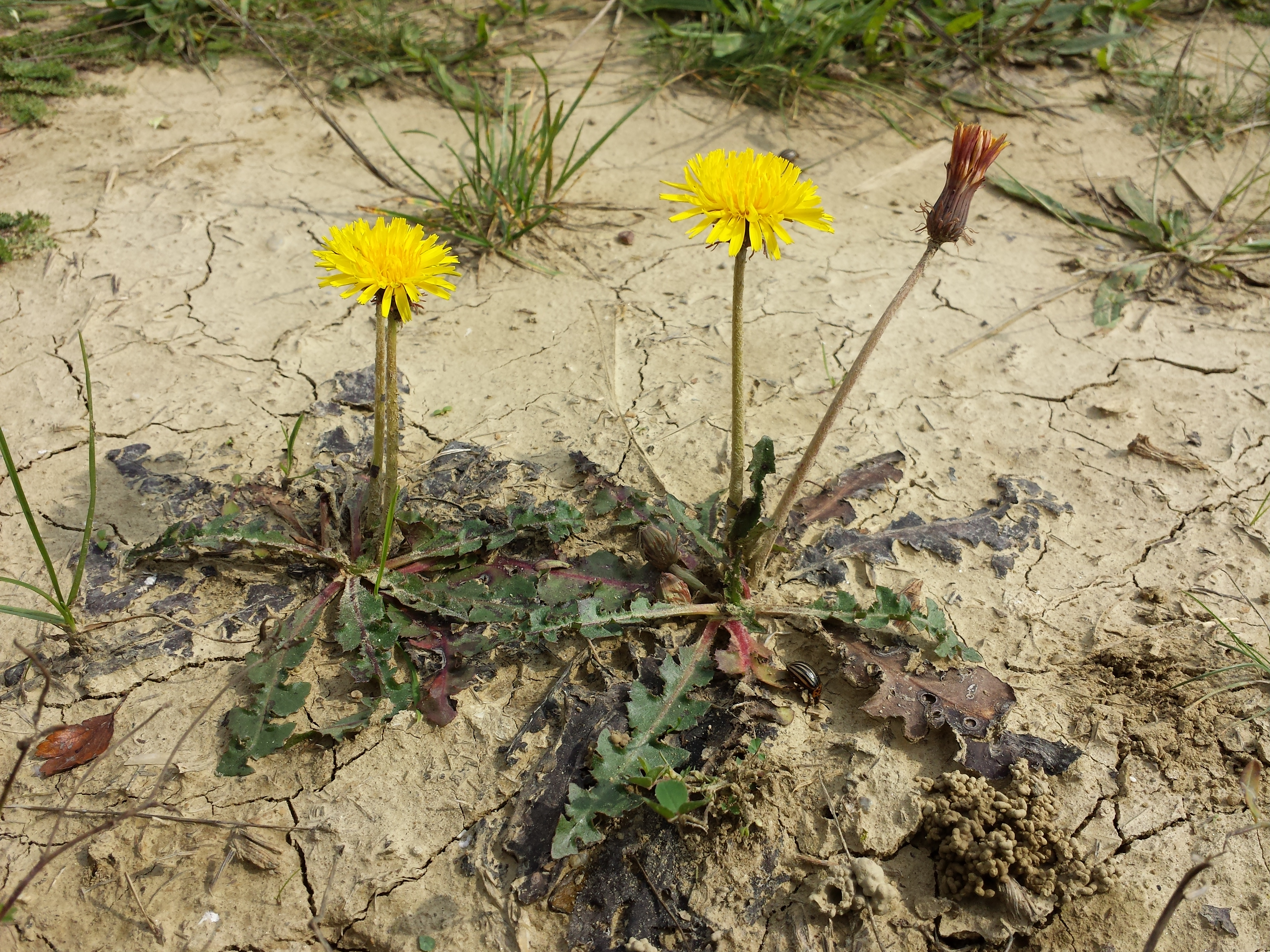 Habitus Taxon: Taraxacum serotinum (sensu Fischer et al. EfÖLS 2008 ISBN 978-3-85474-187-9) Location: Natural monument Blauer Berg near Oberschoderlee, district Mistelbach, Lower Austria - ca. 280 m a.s.l. Habitat: dirt road